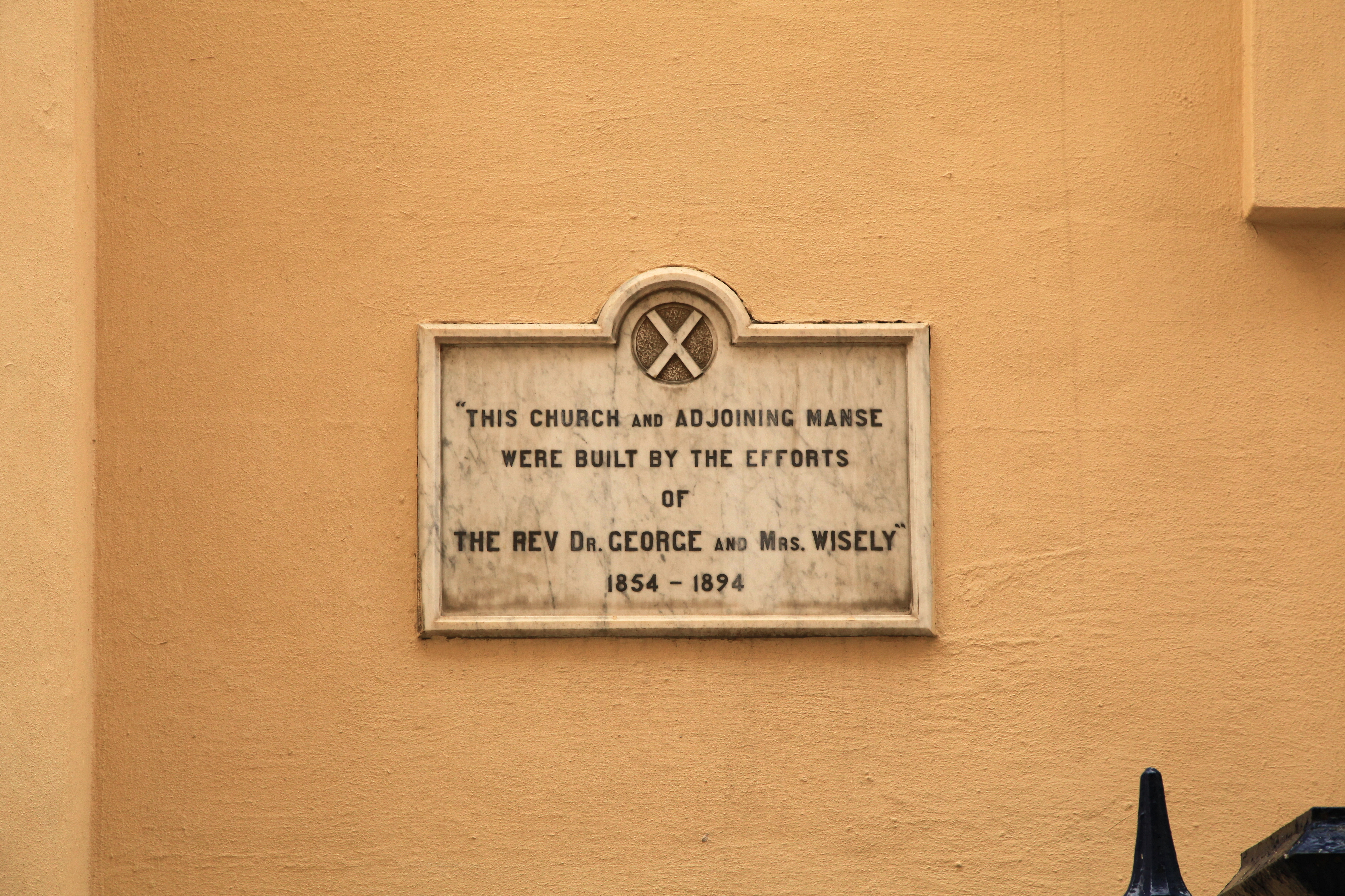 St. Andrew's Scots Church, Triq il-Fran / Triq Nofs-in-Nhar in Valletta, Malta